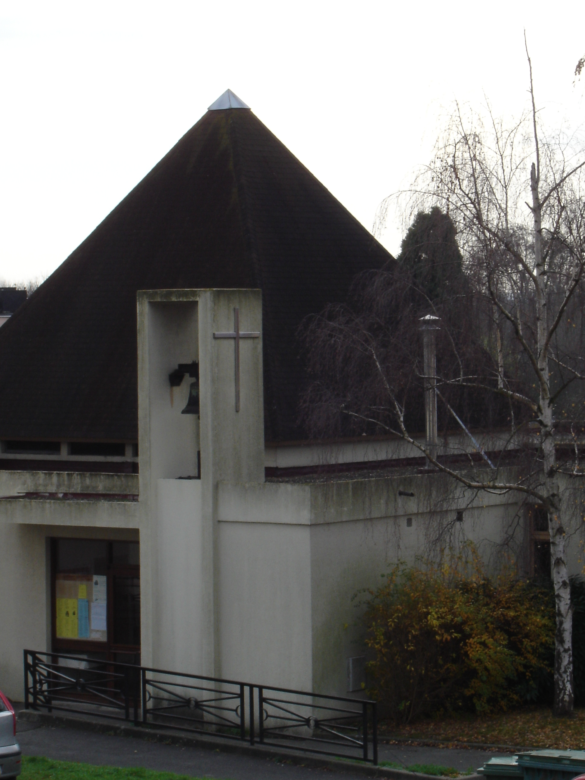 Church Saint Claude, rue Jean Jaurès, Villiers-sur-Orge, France